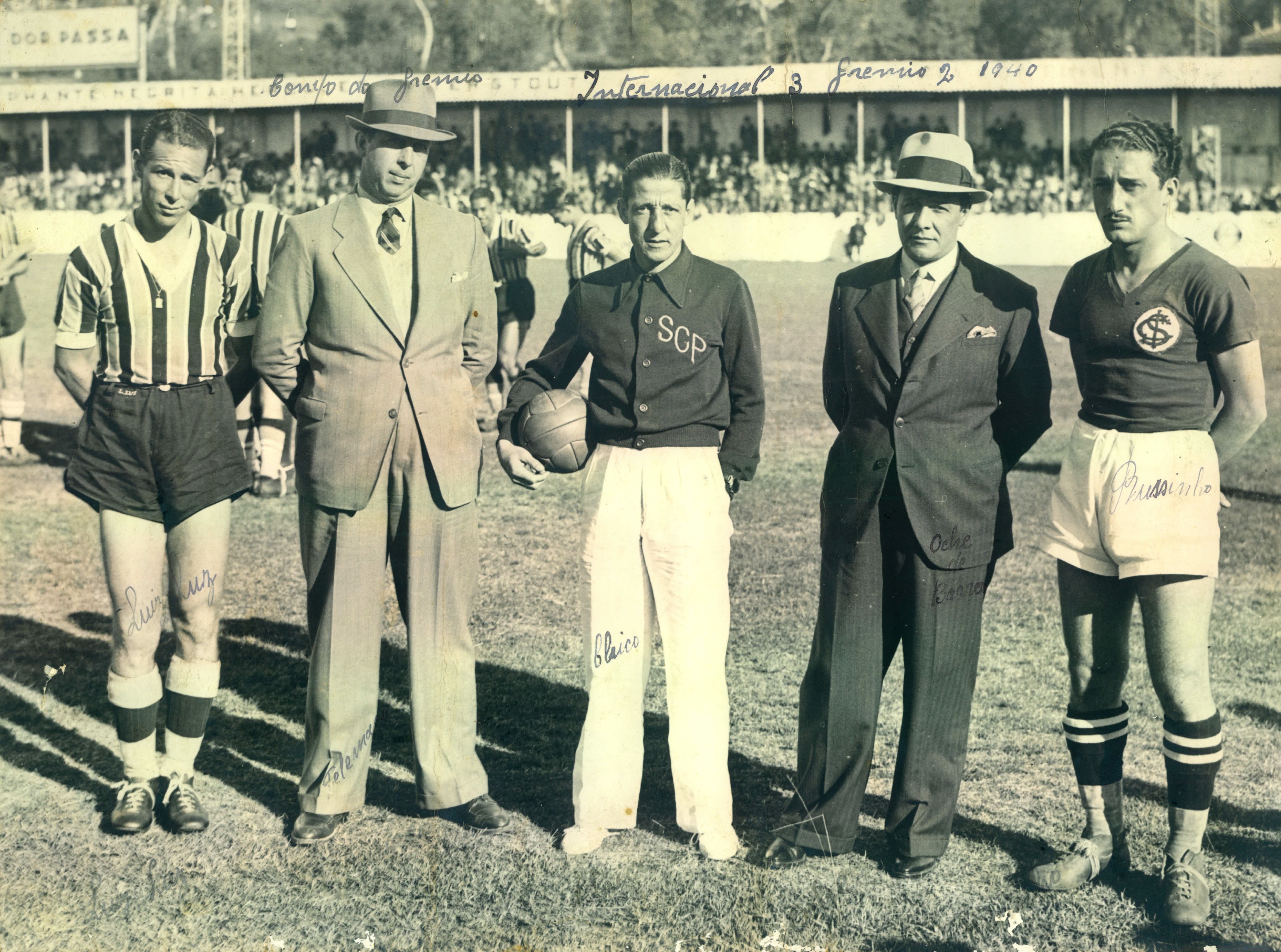 Gremio x Internacional. Grenal #64.